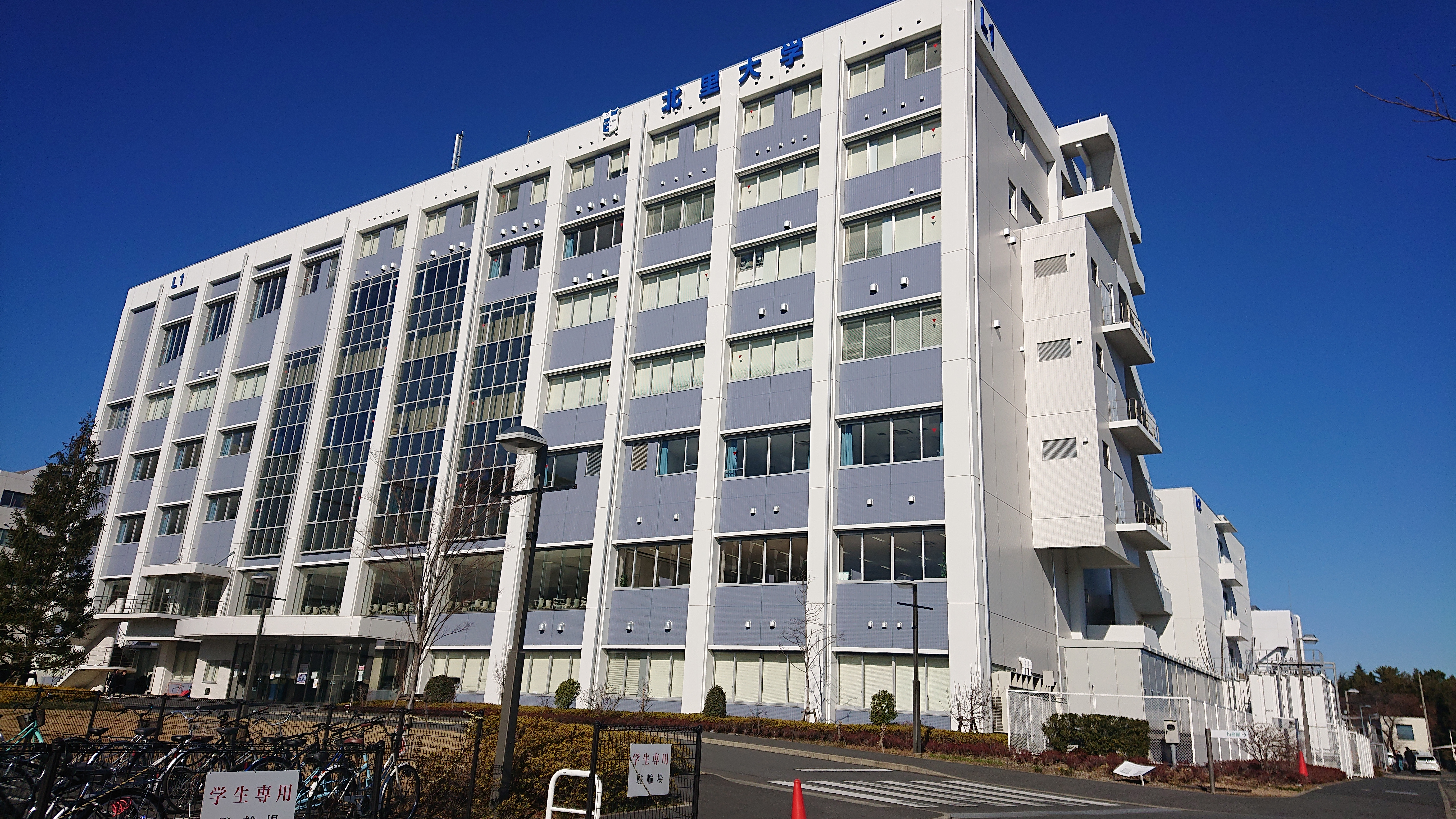 School of Medicine, Faculty of Veterinary Medicine, Faculty of Science, Department of Medical Hygiene, Department of Nursing, Department of Marine Life Science, all grades, Pharmaceutical Faculty and Veterinary School 1st grade learn Kitasato University Sagamihara Campus